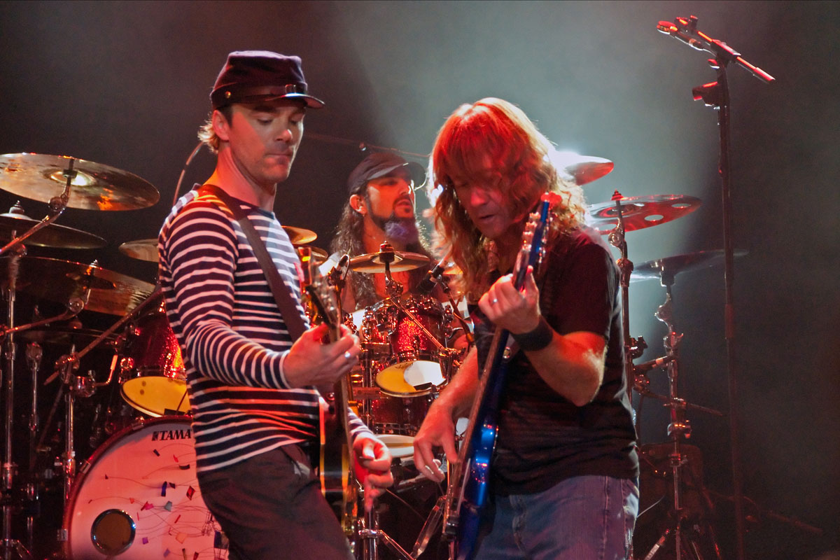 Casey McPherson (vocals/guitar), Dave LaRue (bass) and Mike Portnoy (drums) of Flying Colors in concert (sept. 20., 2012) at 013, Tilburg, The Netherlands.